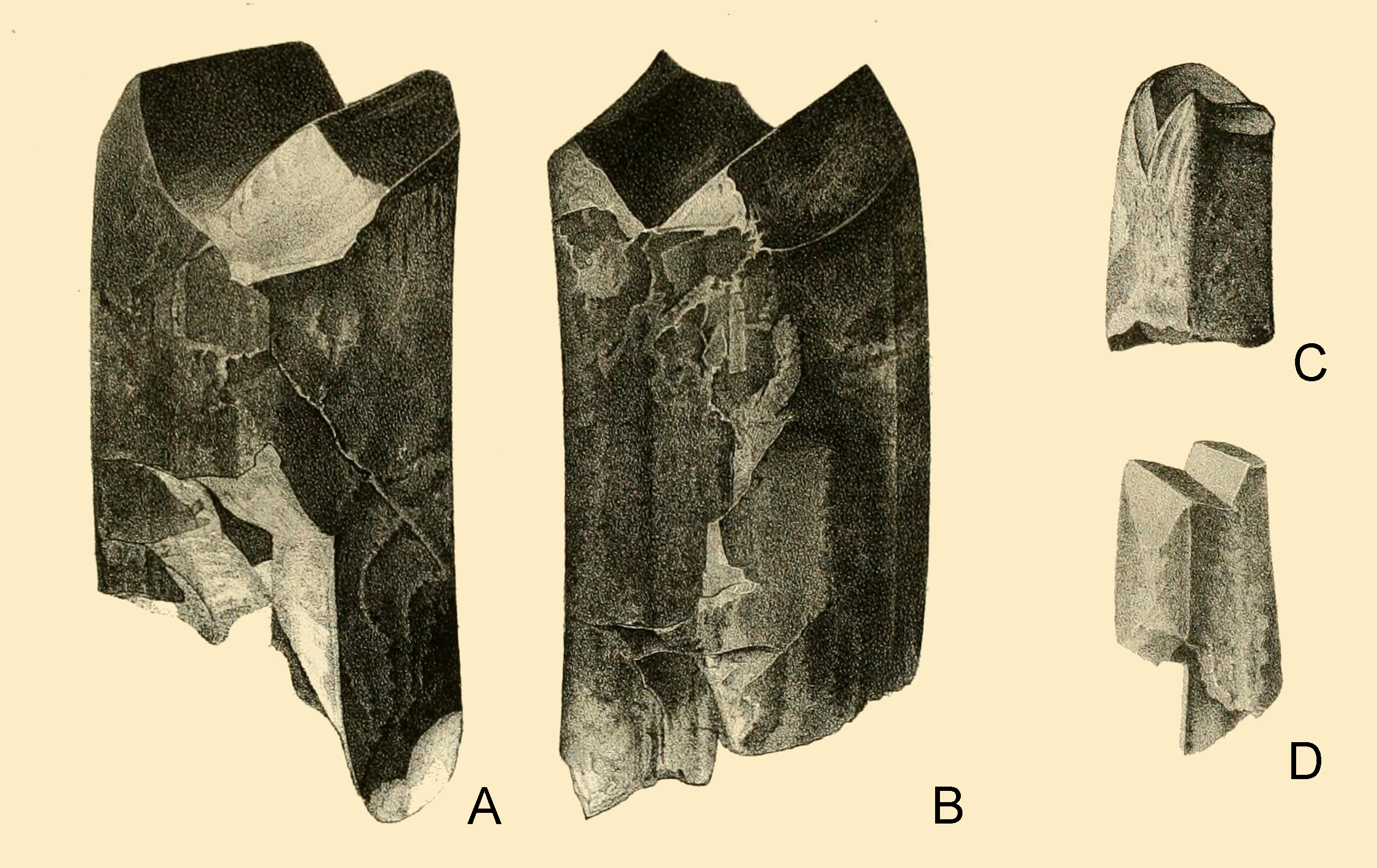 First finds of Eremotherium published by Peter Wilhelm Lund 1842. A and B: tooth of an adult individual; C and D: tooth of and juvenile individual, both are the holotype specimen of E. laurillardi